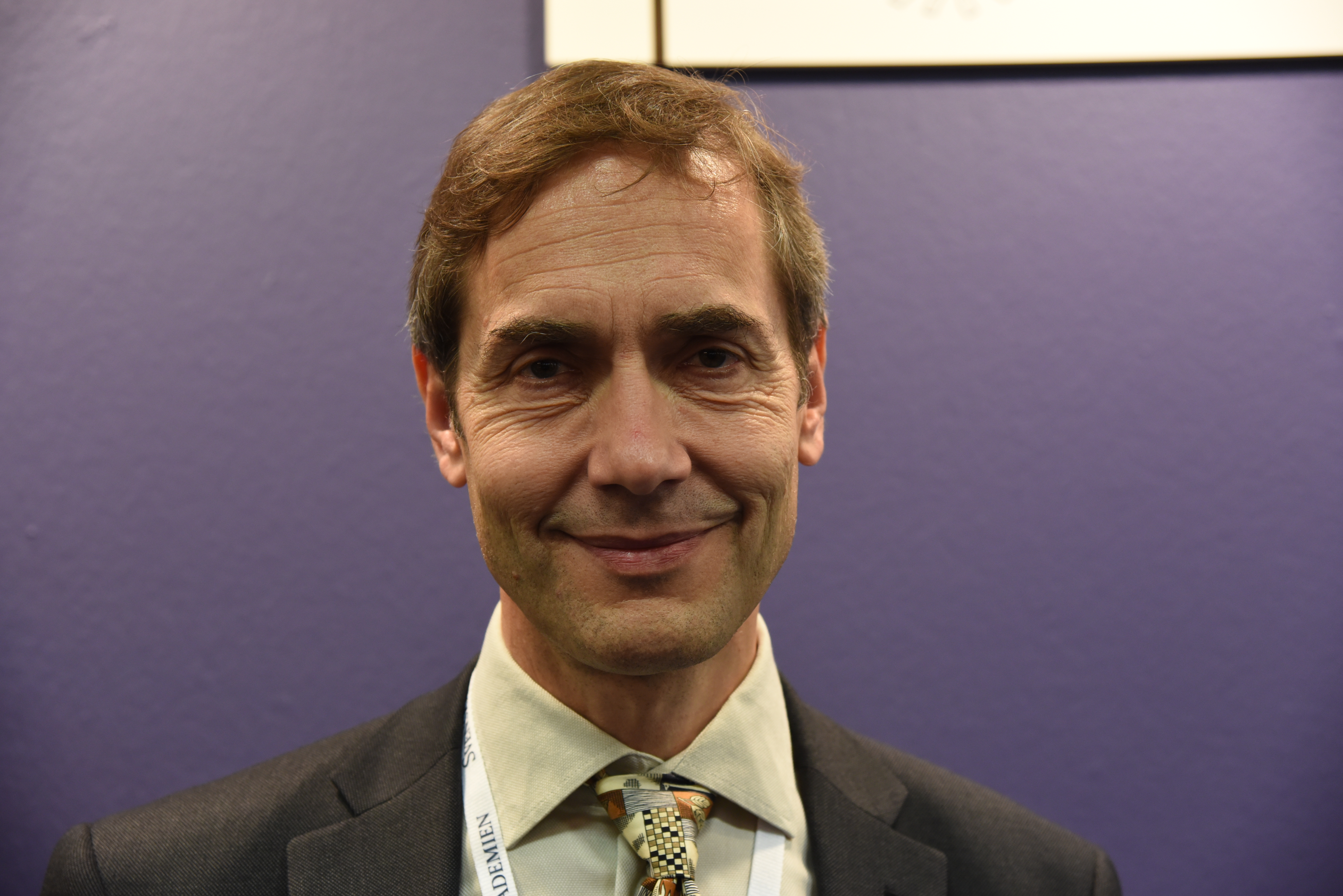 Mats Malm, Swedish literary writer and translator, and since 1 June 2019 Permanent Secretary and Speaker of the Swedish Academy.